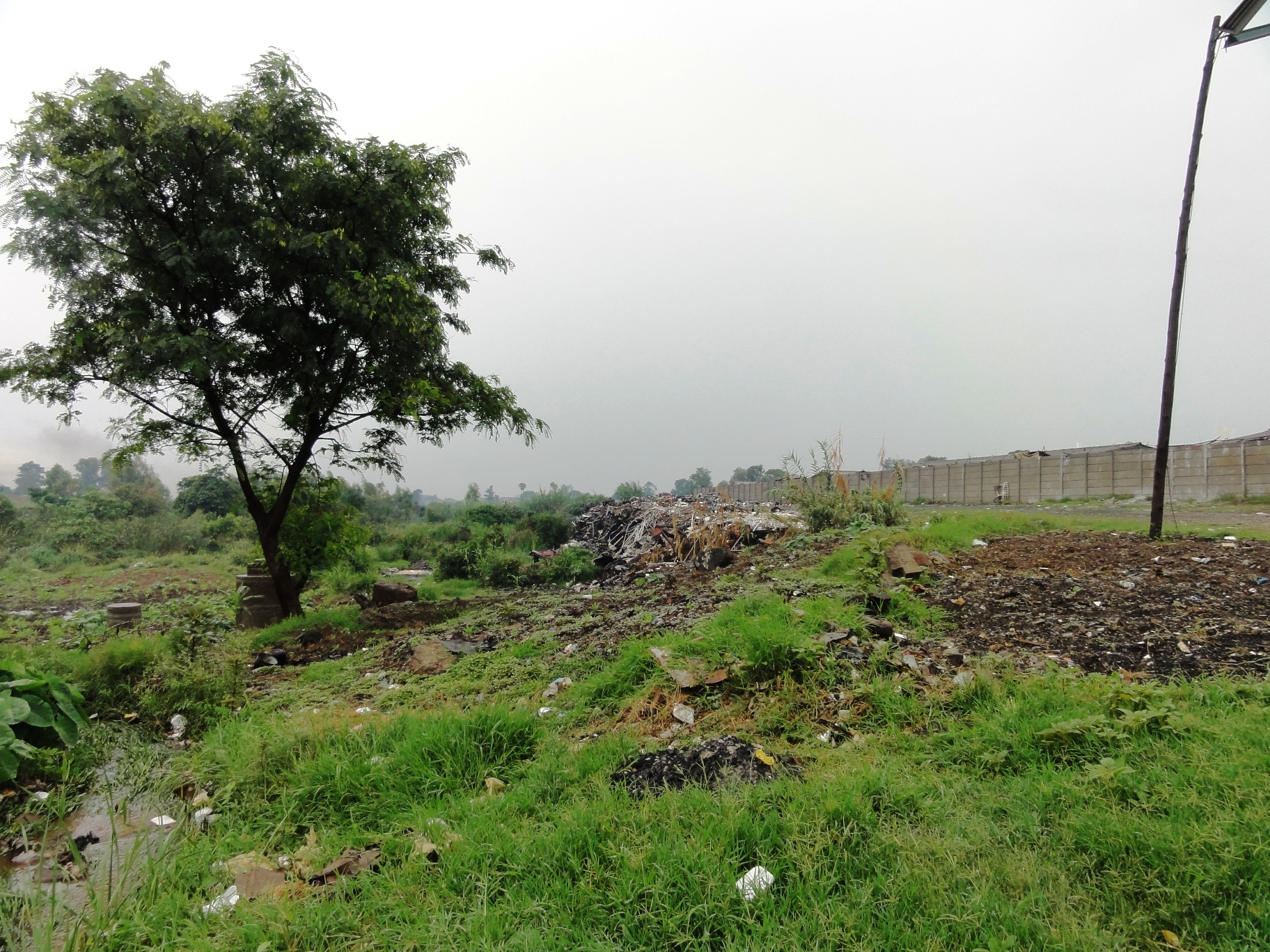 The photos are highlighting the relation between sanitation and solid waste as the drainage for rainwater are blocked with solid waste. The photos are taken in Mbare, a low-income suburb of Harare, Zimbabwe. Photo taken at 14 Dezember 2011 by P. Feiereisen in Harare, Zimbabwe.